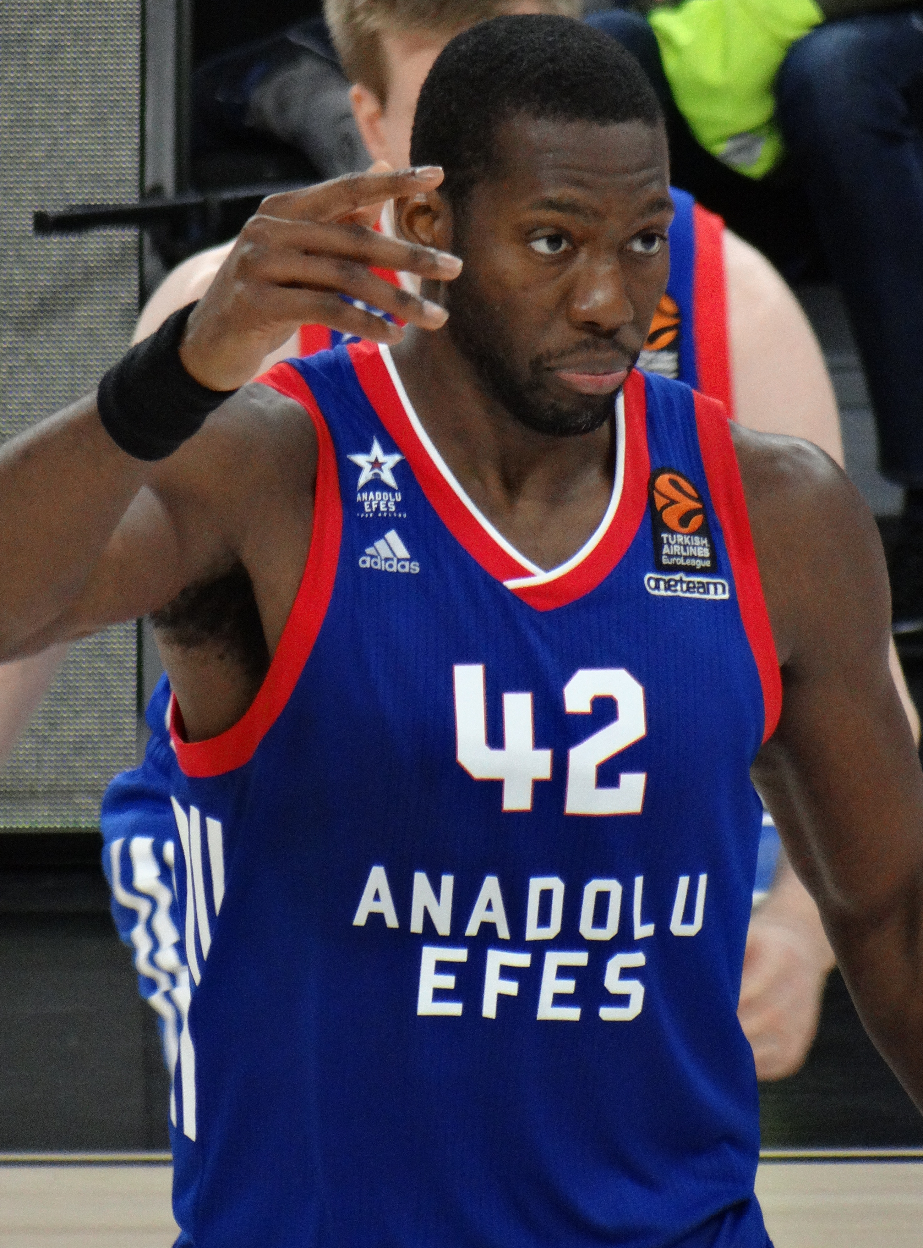 Bryant Dunston 42 - Anadolu Efes S.K. 20171215